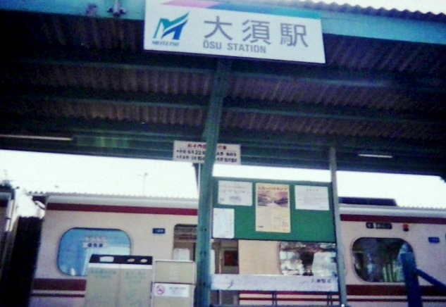 Meitetsu Ohsu Station entrance